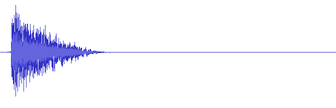 Waveform of orchestra hit generated on the Yamaha PSS31